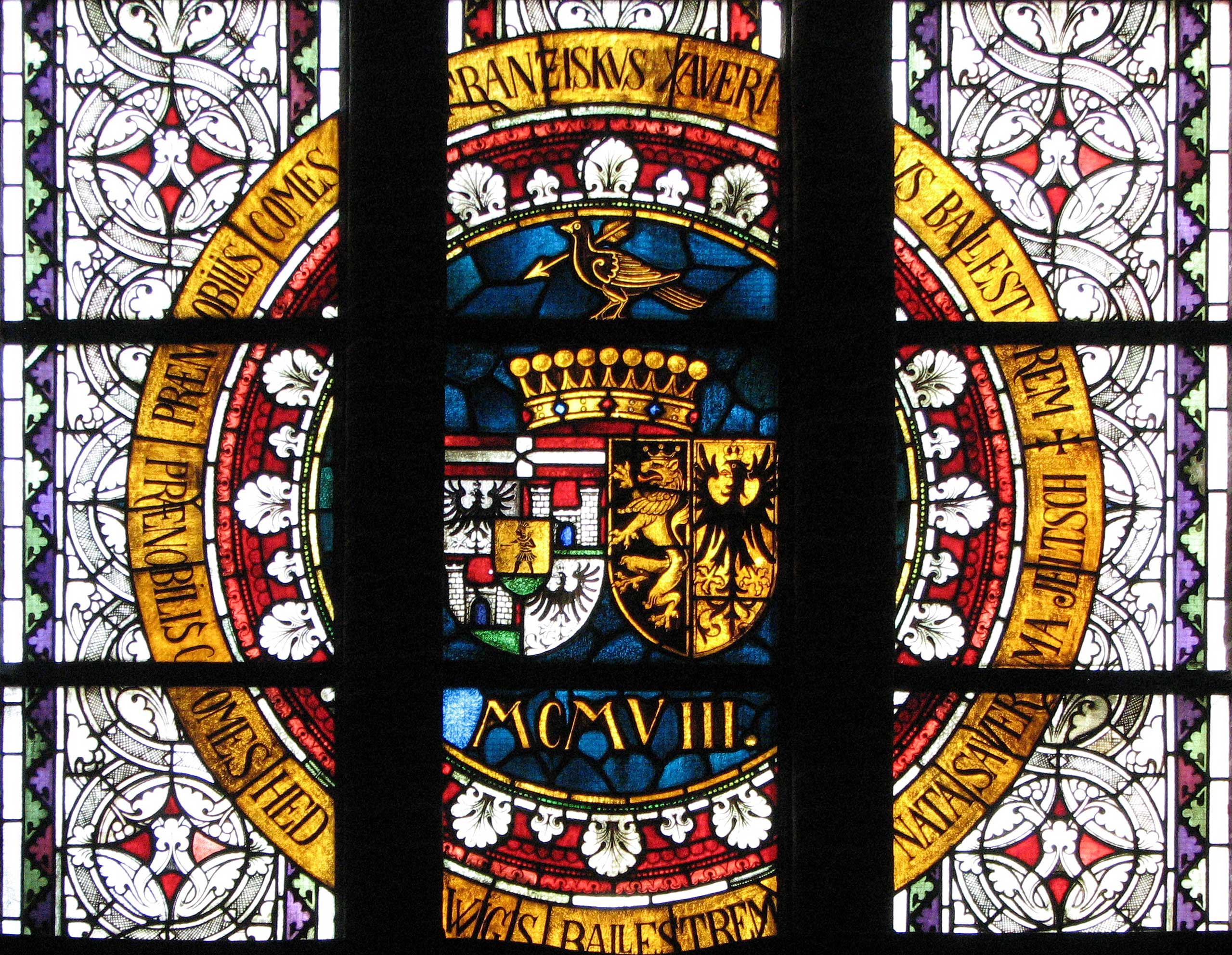 Stained glass window in the upper presbytery of the Basilica of St. Louis King in Katowice Poland, XX century - The emblem of the founder of the monastery Franziskus Xaverius Ballestrem